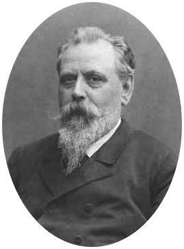 Carl Frederik Aagaard (1833-1895), Danish landscape painter